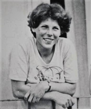 Rower of AZS Politechnika Wrocławska, Hanna Jarkiewicz-Widun, Amsterdam 1977